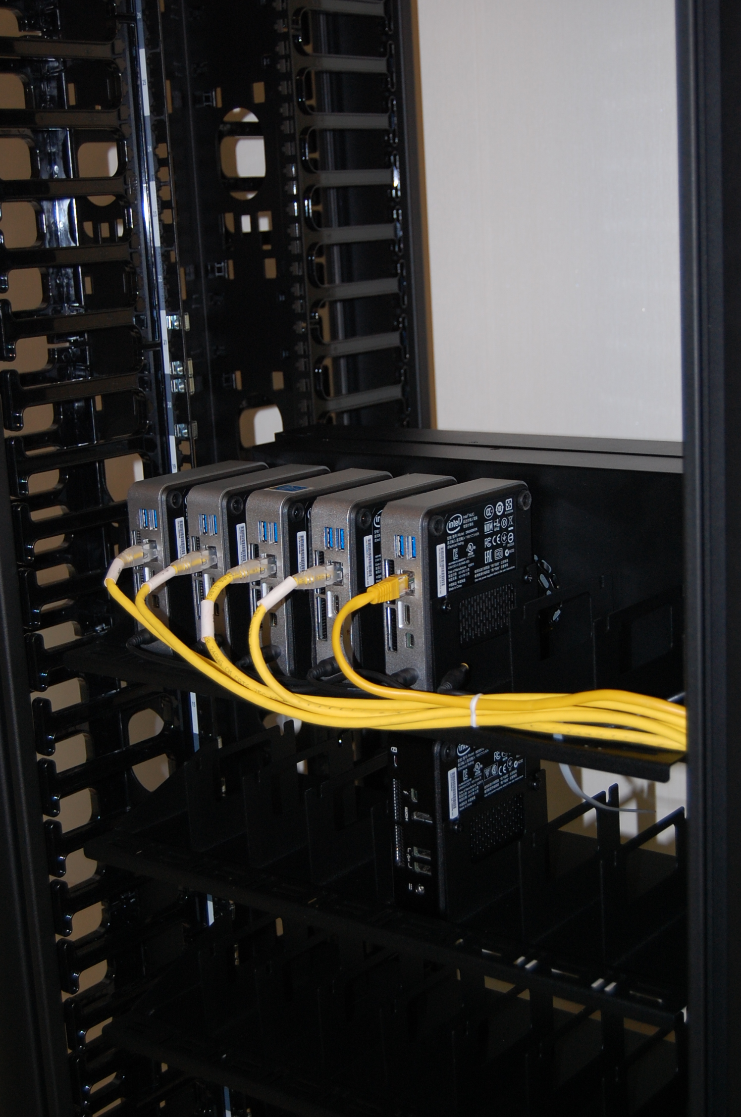 NUCserver custom solution 3